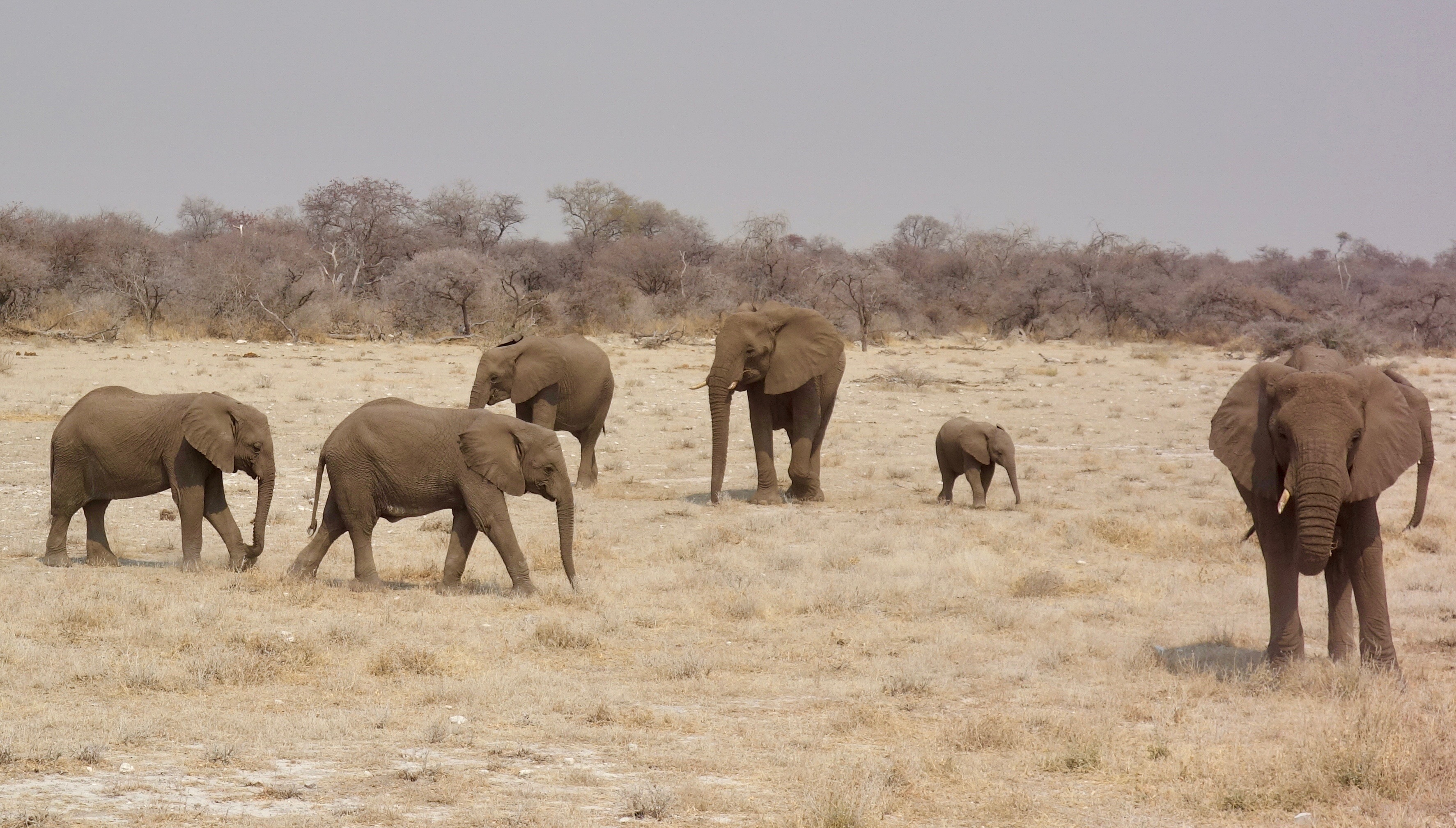 Etosha National Park, Namibia